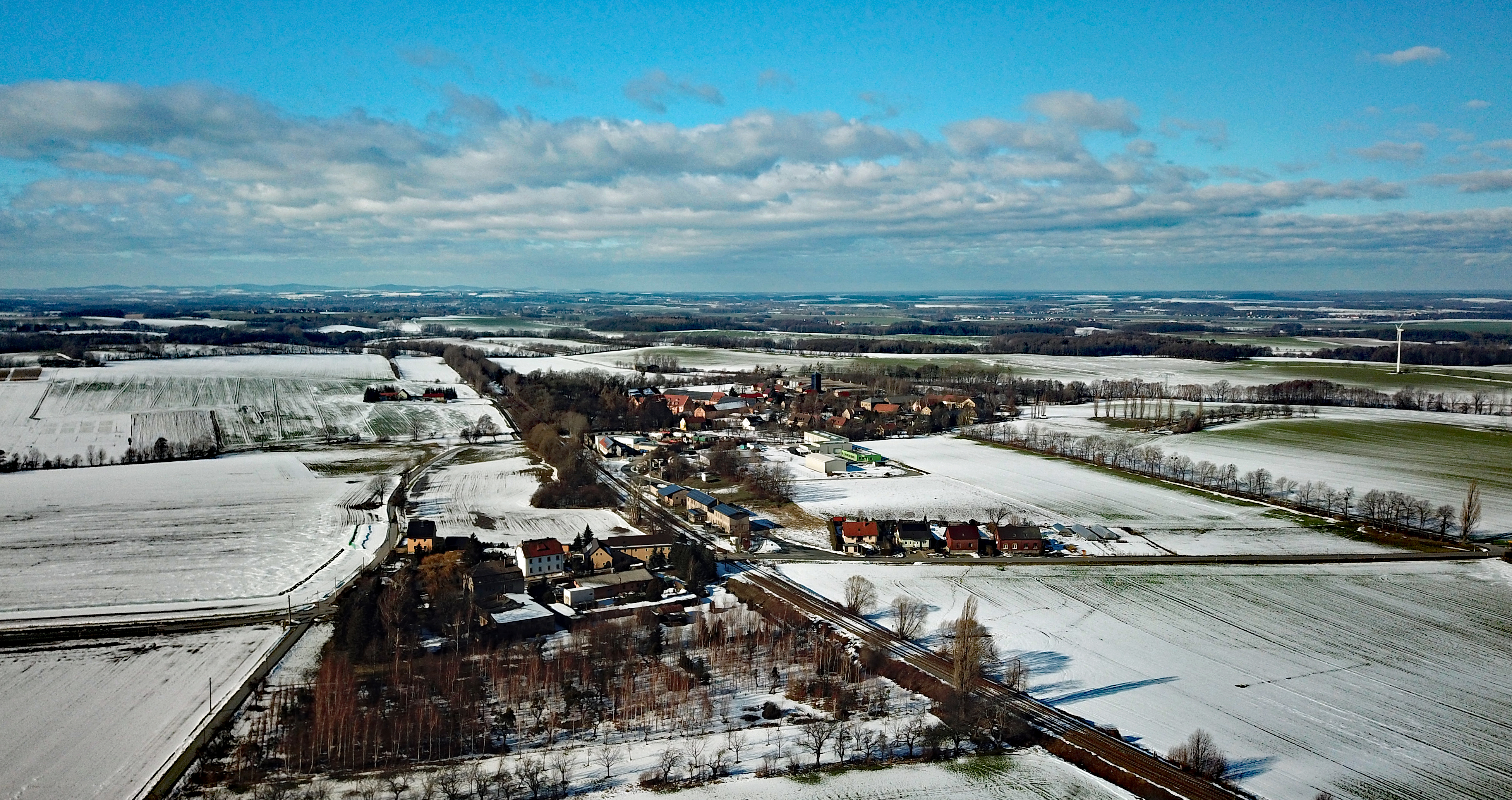 Pommritz (Hochkirch, Saxony, Germany) Hornjoserbsce: Powětrowy wobraz Pomorc Dieses Foto wurde mit einem Quadcopter innerhalb der RMZ des Flugplatzes EDAB aufgenommen. Der Flugleiter wurde am Aufnahmetag telephonisch über Ort und Zeit informiert und hat zugestimmt. Der Flug erfolgte auf Grundlage der Allgemeinverfügung der Landesdirektion Sachsen zur Erteilung der Betriebserlaubnis für unbemannte Luftfahrtsysteme und Flugmodelle gemäß § 21a LuftVO und Zulassung von Ausnahmen von Betriebsverboten gemäß § 21b LuftVO für den Freistaat Sachsen.